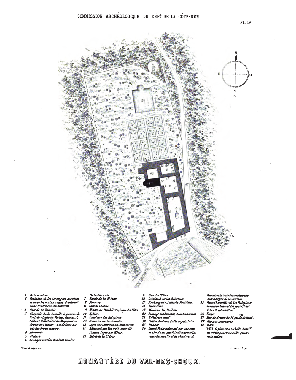 This image comes from : Mémoires de la Commission des antiquités. Département de la Côte-d'Or, Tome sixième. Années 1861-62-63-64. Édité à Dijon et Paris. 1864.